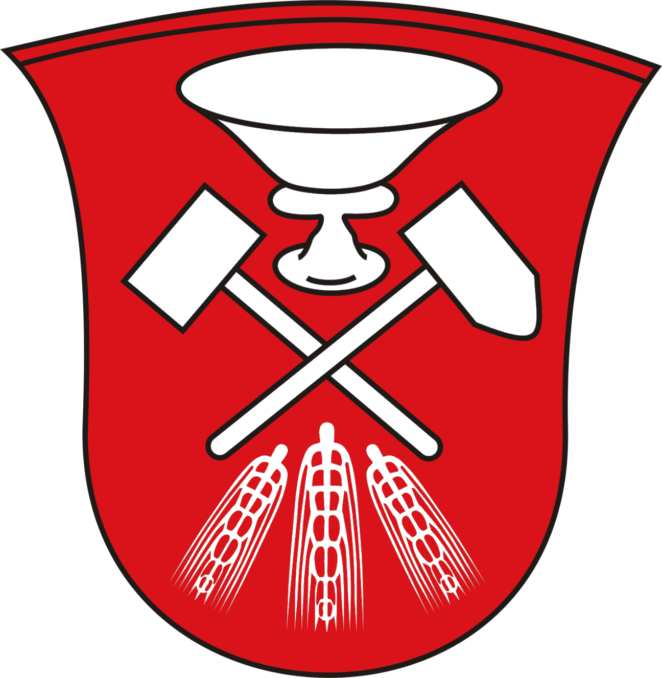 granted 1934, confirmed 14 July 2005.